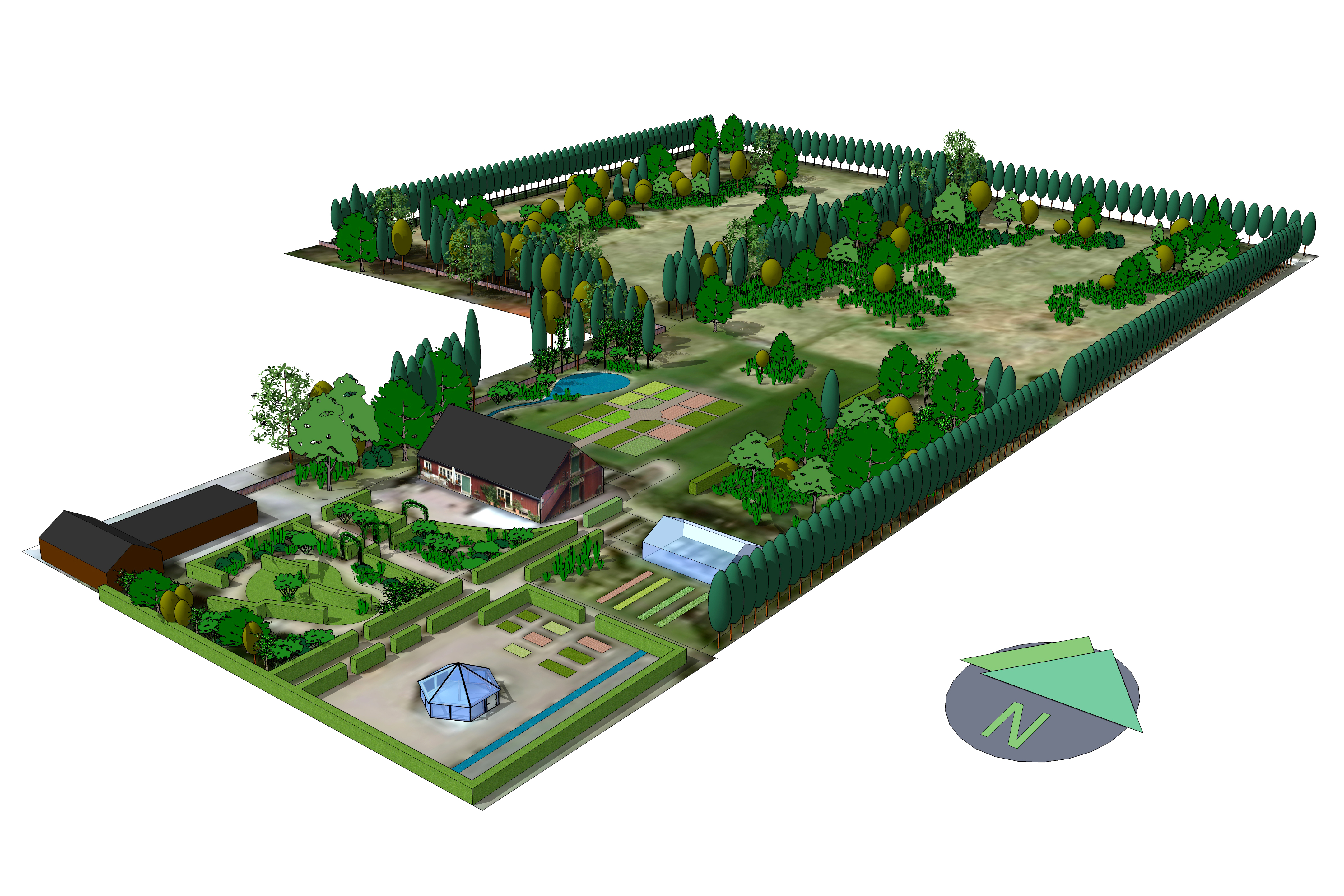 3D sketch depicting the Alnarp rehabilitation garden. Image rendered by: Gunnar Cerwén.